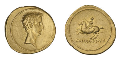 Aureus of August RIC I Augustus 262